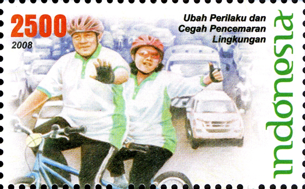 Stamps of Indonesia